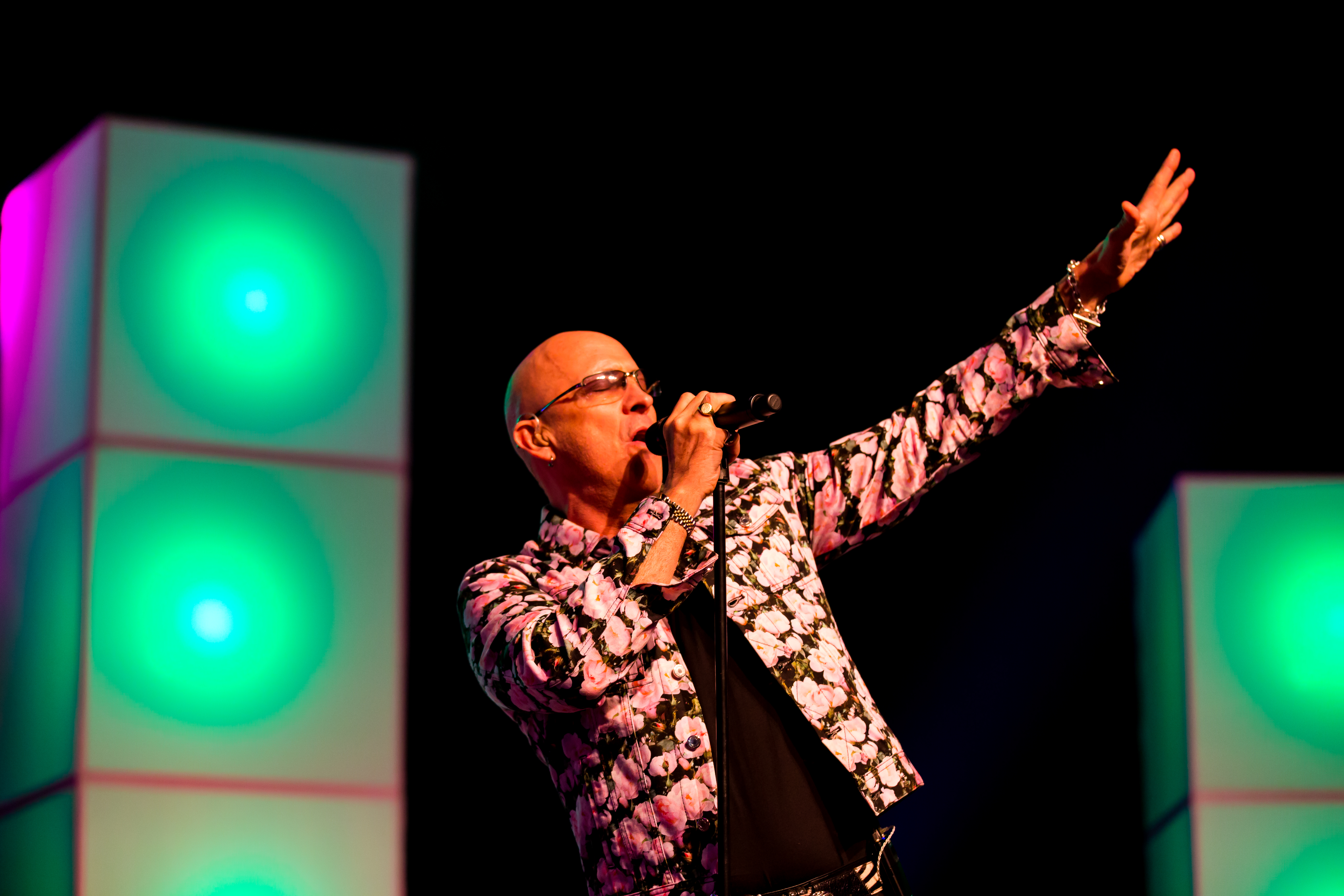 RPR1 90er Festival Maimarkthalle Mannheim Eloy, LayZee aka Mr. President, Nana, Right Said Fred, Snap! feat. Penny Ford during RPR1 90er Festival at Maimarkthalle, Mannheim, Baden-Württemberg, Germany on 2015-03-14, Photo: Sven Mandel